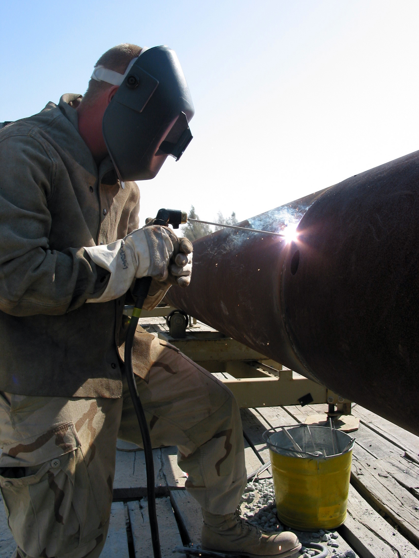 Camp Patriot, Kuwait (Apr. 2, 2003) -- Steelworker Constructionman Patrick Lewis from Kenosha, Wis., is attached to Amphibious Construction Battalion Two (ACB-2) stationed at Little Creek, Va., welds a seam on a piece of pile to be used in the upcoming Elevated Causeway System (ELCAS)-modular structure being built at Camp Patriot. The ELCAS is a joint effort of Amphibious Construction Battalion (ACB) Seabees from the East and West coasts. It will serve as an additional tool in the ongoing Combined Joint Logistics Over the Shore (CJLOTS) activities. CJLOTS allows the offload of supplies, equipment and ordnance from Army and Navy pre-positioning ships, to reach the troops in a timelier manner. The Seabees are deployed in support of Operation Iraqi Freedom, the multi-national coalition effort to liberate the Iraqi people, eliminate Iraq's weapons of mass destruction, and end the regime of Saddam Hussein. ACB-1 is homeported in Coronado, Calif., while ACB-2 is homeported in Little Creek, Va. U.S. Navy photo by Journalist 1st Class Joseph Krypel. (RELEASED)